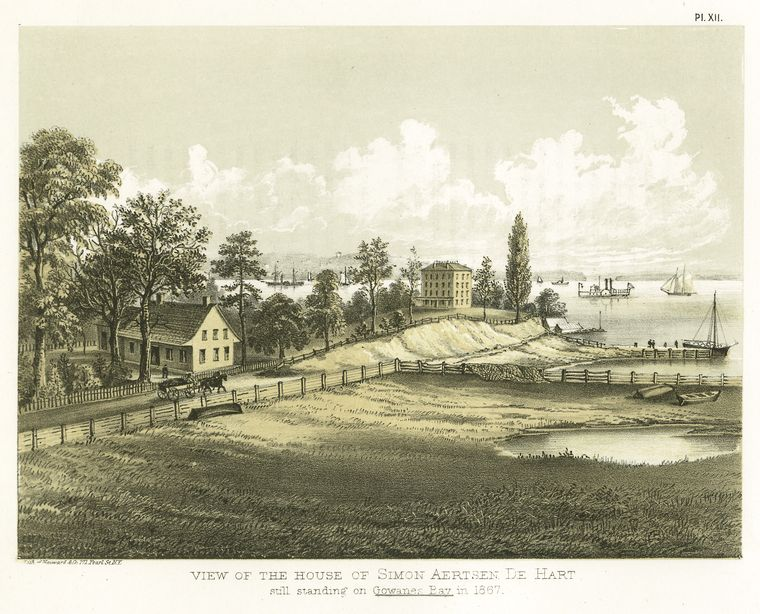 "View of the house of Simon Aertsen De Hart, still standing at Gowanes Bay in 1867." Published by Hayward & Co.